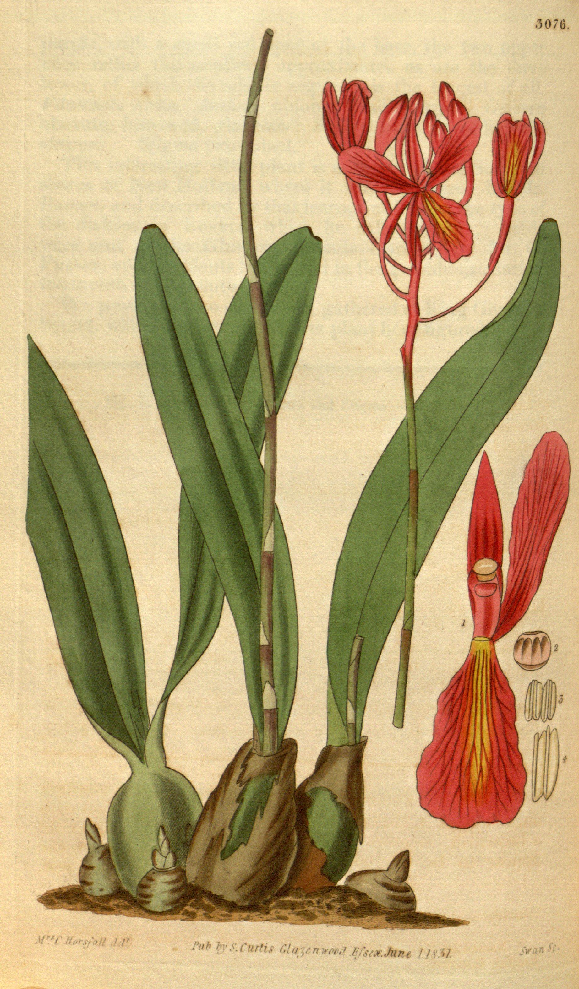 Illustration of Broughtonia sanguinea